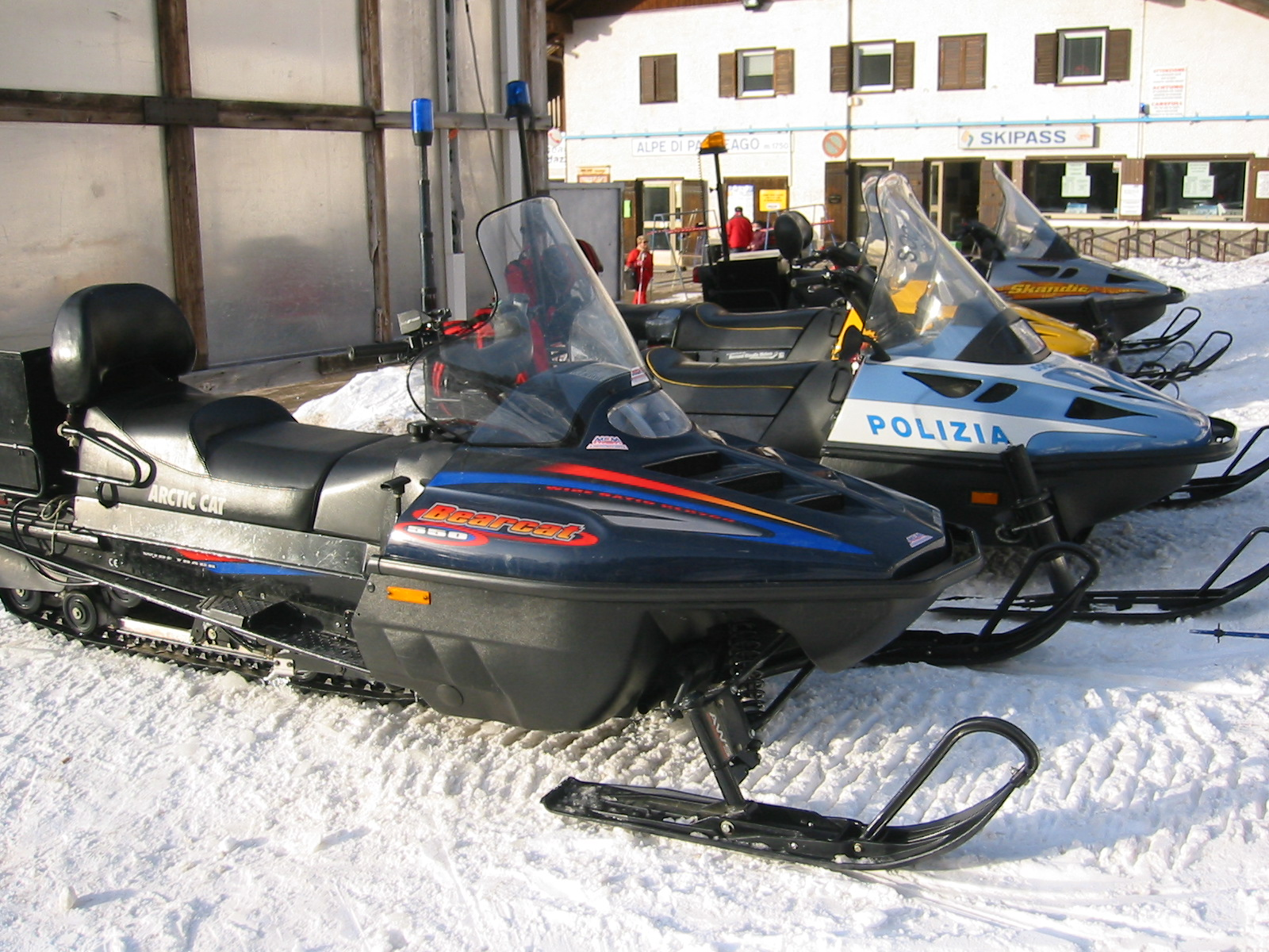 Snowmobiles in Italia, Alps